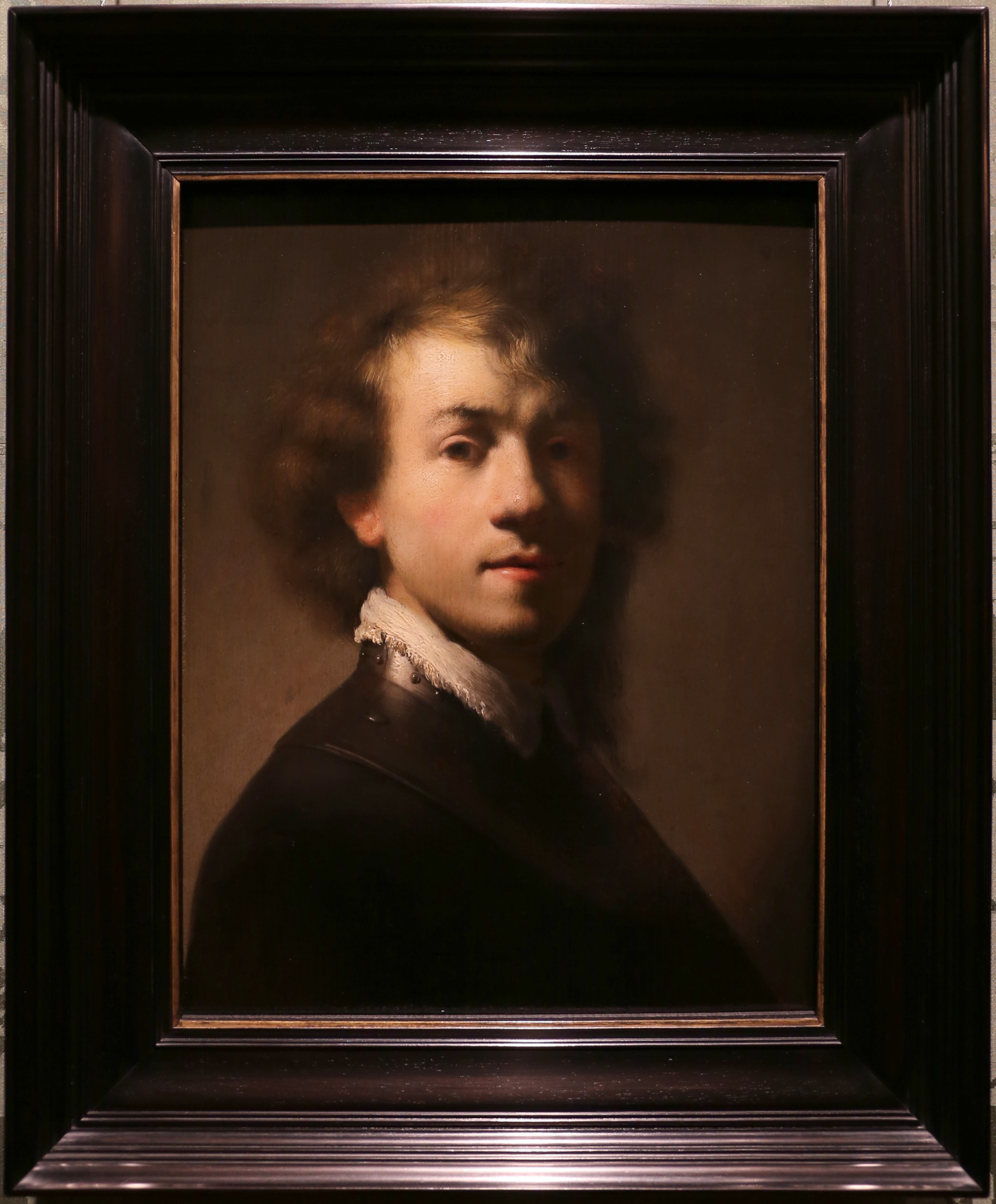 Paintings by Rembrandt in the Mauritshuis